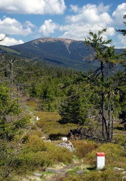 Kralicky Sneznik mountain